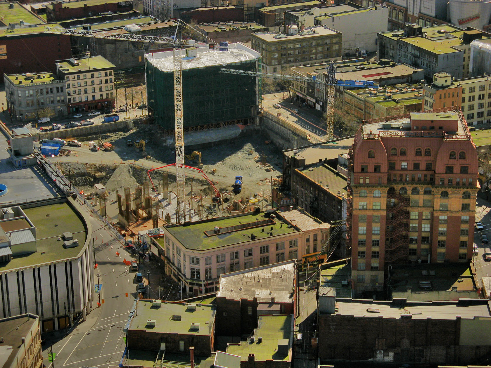 Development of the old Woodward's site, Vancouver, BC. Took this all by myself.